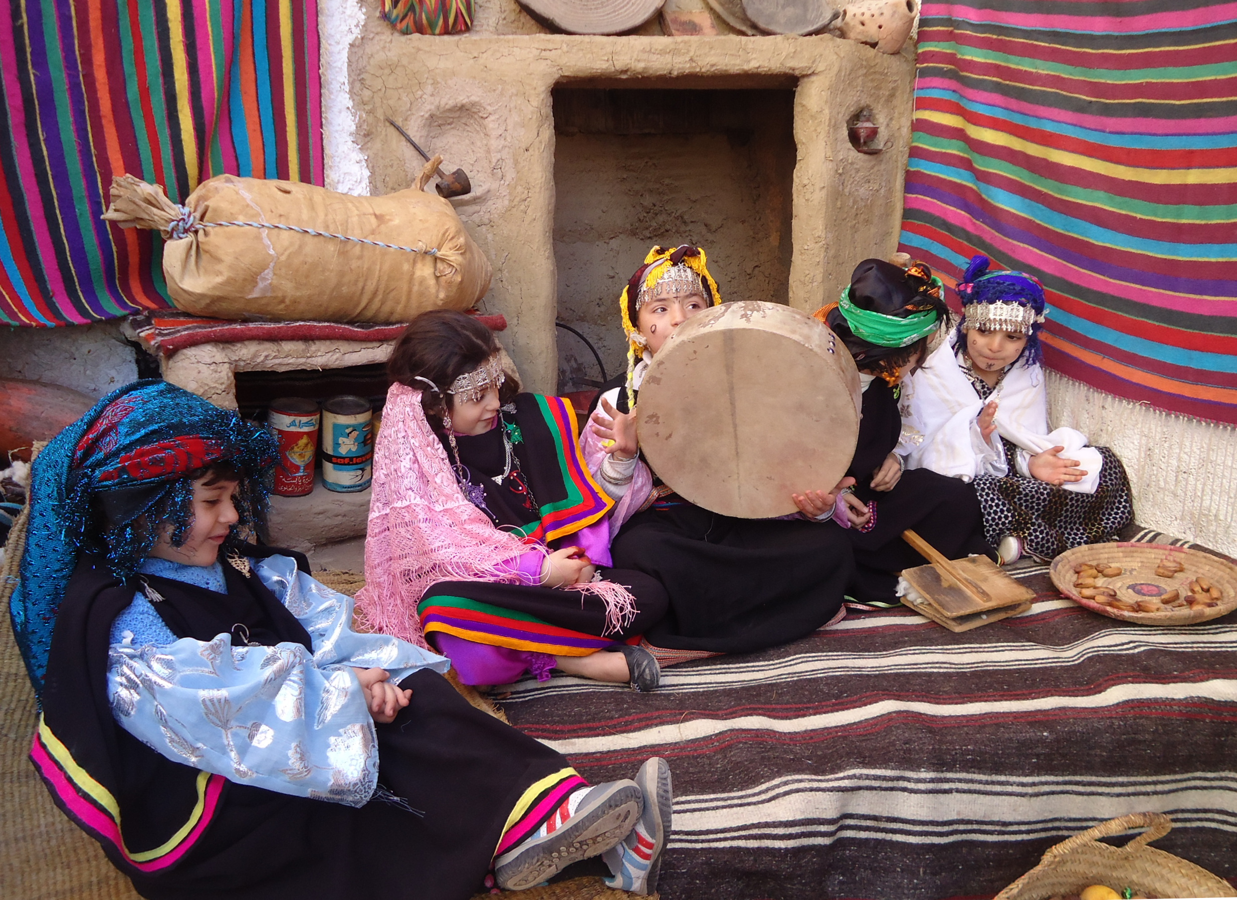 little girls dressed in traditional Chaoui outfits, during the spring festival This is an image of Cultural Fashion or Adornment from Algeria